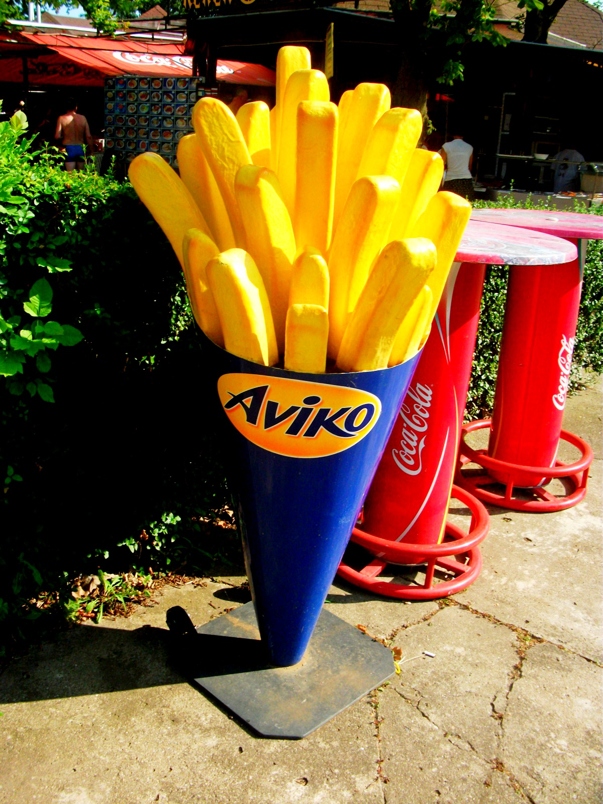 Spa in Hajdúszoboszló, Hungary.